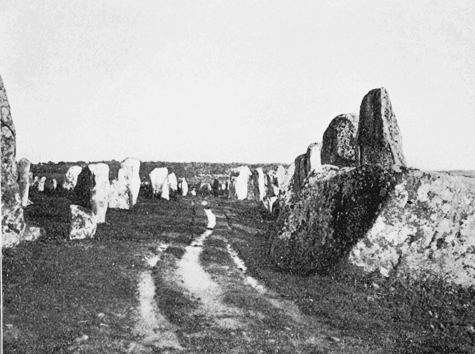 Alignments near Carnac Brittany